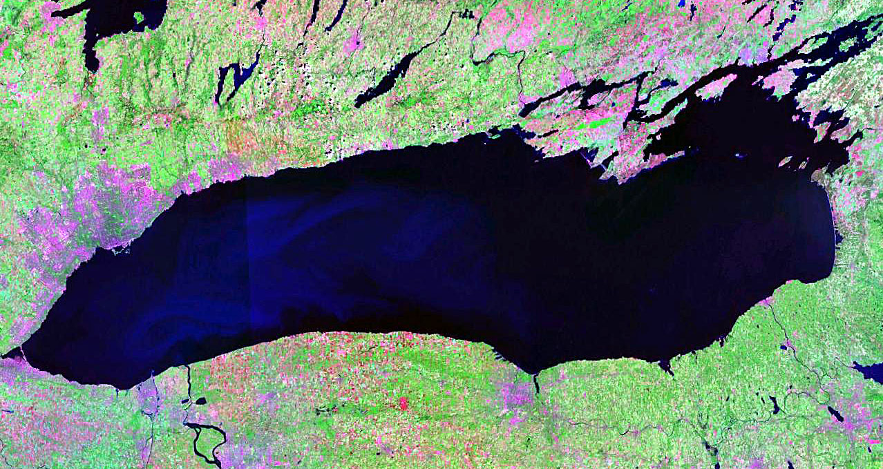 Lake Ontario. Satellite view.